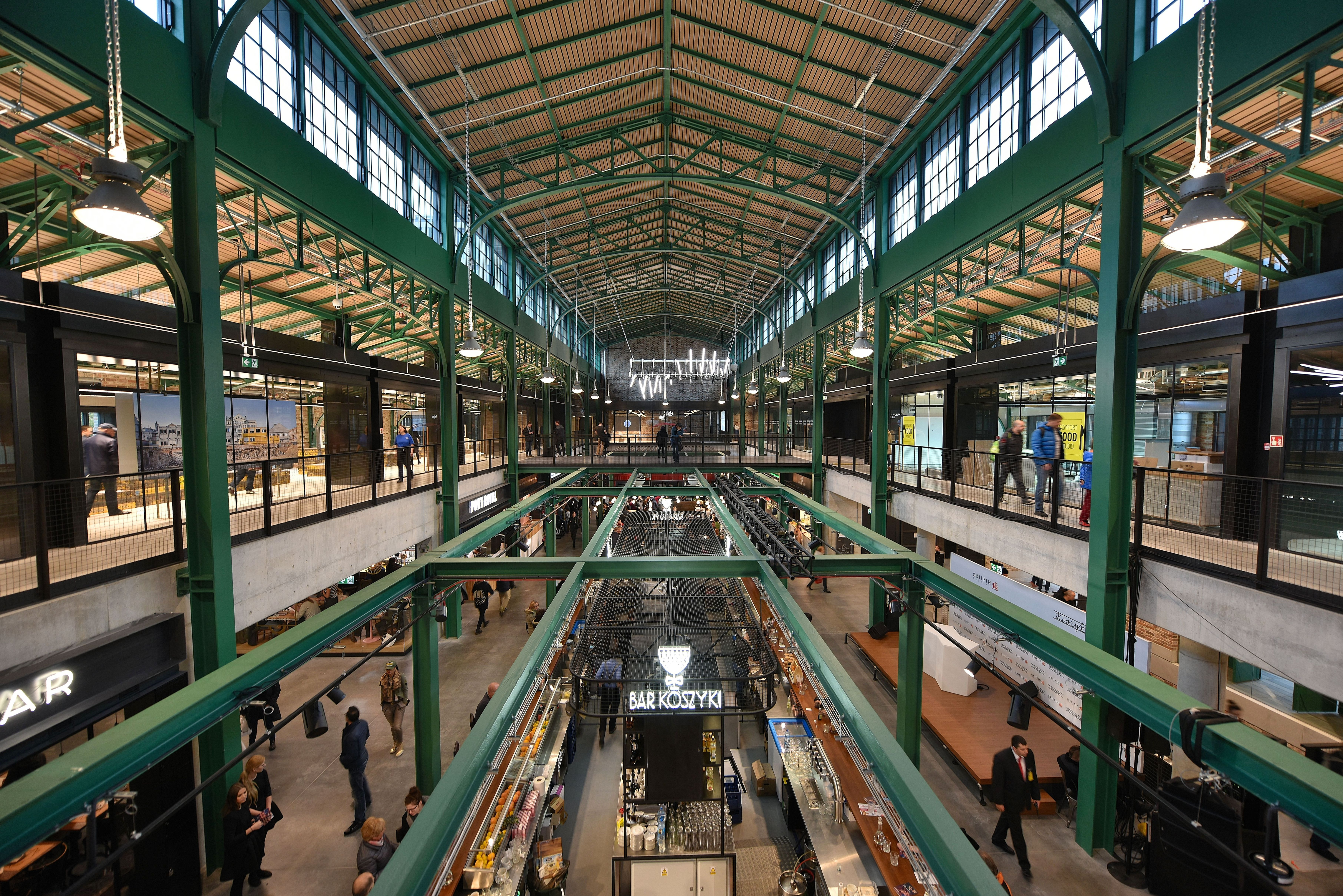 Interior of Hala Koszyki